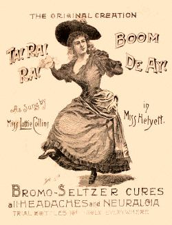 Bromo-Seltzer advertisement for headache medicine. Lottie Collins sings Ta-Ra-Ra Boom-de-ay! after being healed by the medicine and this effect makes her to dance and sing.